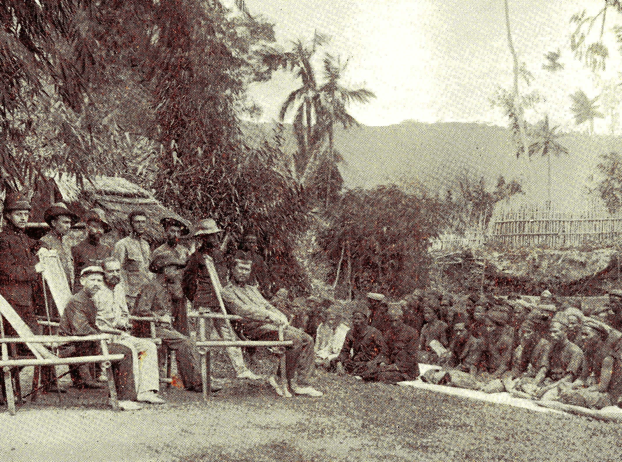 Grote vergadering; overste Van Daalen ontvangt alle hoofden van Gajo Loeos